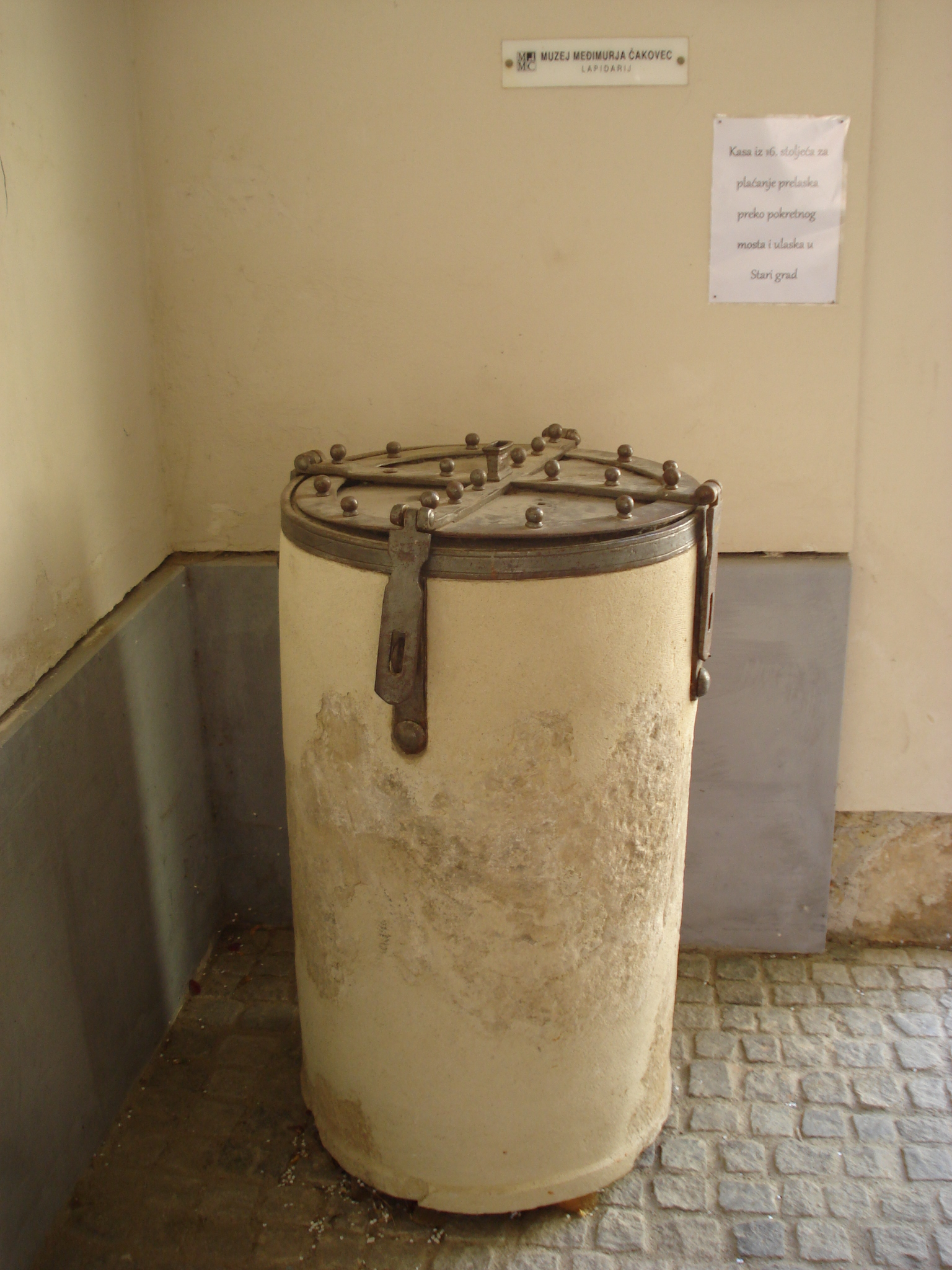 Entrance fee stone cash container in the Lapidarium of the Medjimurje County Museum, Čakovec, Croatia (16th century)